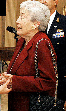 Former Defense Ministry, Azucena Berruti